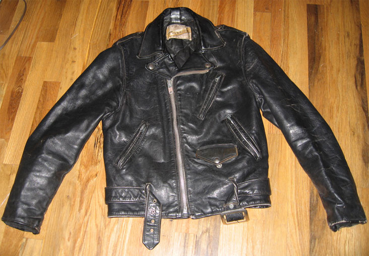 1970's Schott Perfecto 613. Photo by Zeus Cervas.